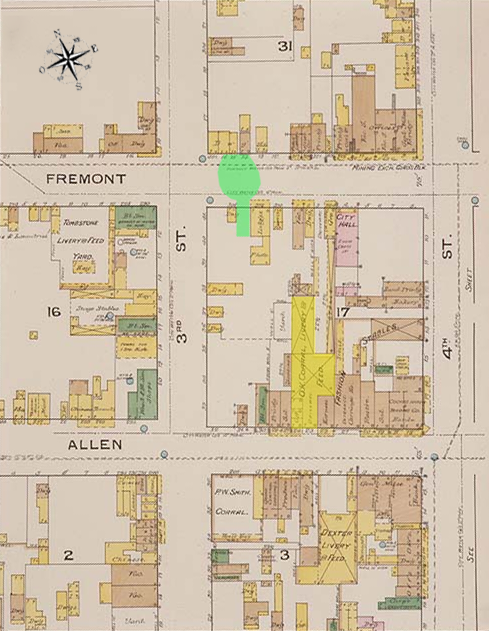 The Gunfight at the O.K. Corral began in a narrow 18 feet (5.5 m) wide lot (highlighted in green) on Fremont Street between Fly's Photography Studio and the Harwood House and spread onto Fremont Street. The O.K. Corral itself (highlighted in yellow) is located on Allen St. The gunfight took place six lots west of the rear entrance to the corral. This map is one of over 700,000 fire insurance map sheets produced by the Sanborn Map Company for more than twelve thousand American cities and towns from the 1870s until the 1950s. These maps were prepared primarily to assist insurance underwriters in determining the risk involved in insuring individual properties. The outline or footprint of each building is indicated, and the buildings are color coded to show the construction material (pink for brick; yellow for wood; brown for adobe). Numbers inside the lower right corner of each building indicate how many stories the building had, while the numbers outside the building on the street front refer to the street addresses, allowing researchers to correlate these locations with census records and city directories. Individual dwellings are marked with "D" or "Dwg."